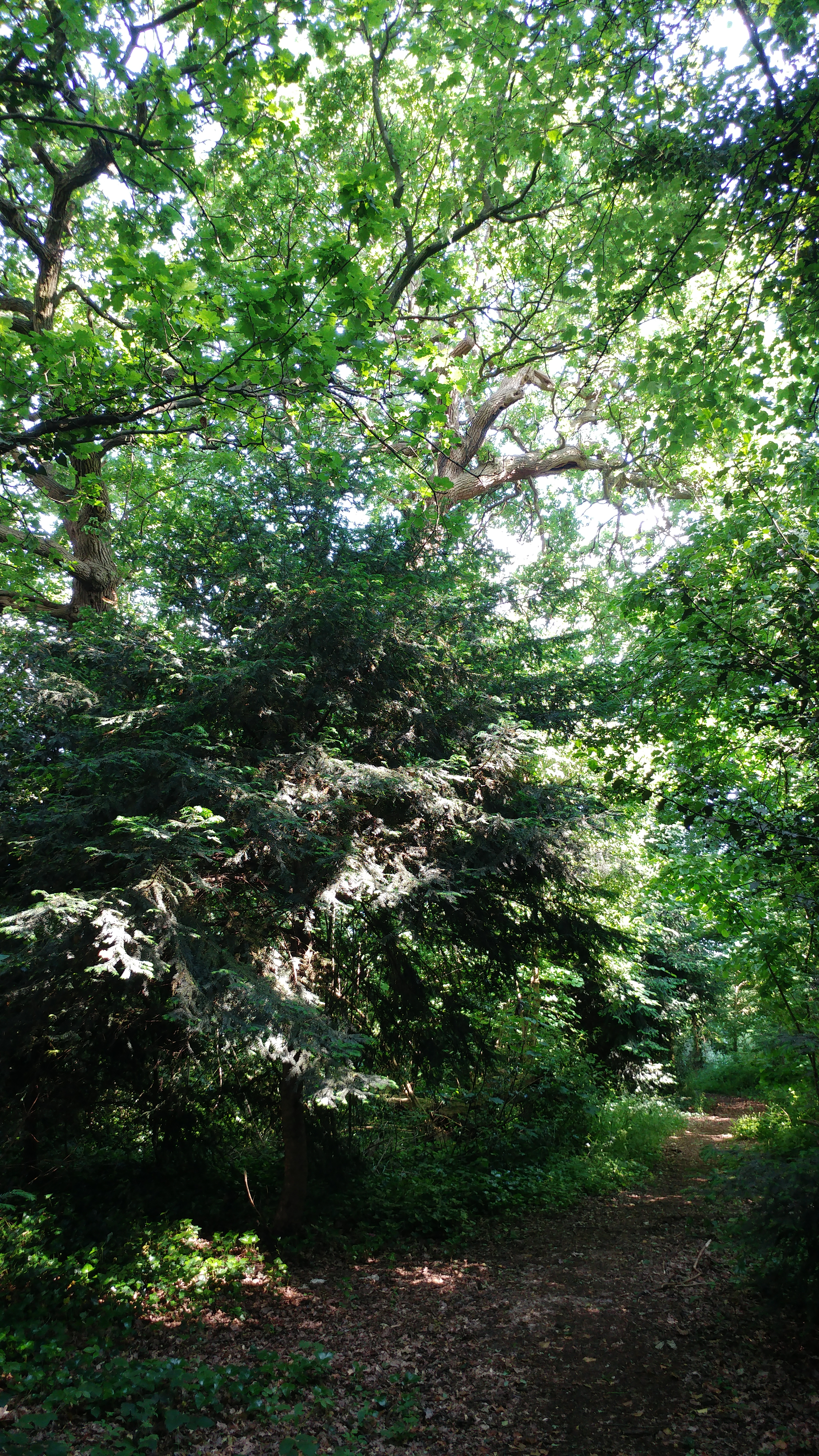 Old Oak with hollows in Hanger Hill Wood (London Borough of Ealing)